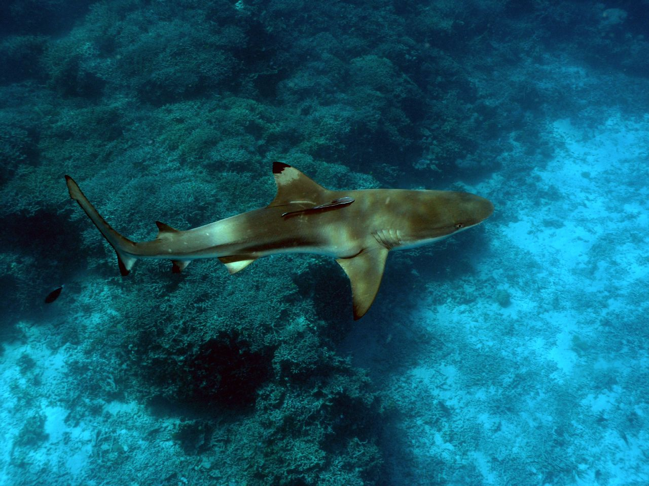 Blacktip reef shark (Carcharhinus melanopterus) in the Solomon Islands